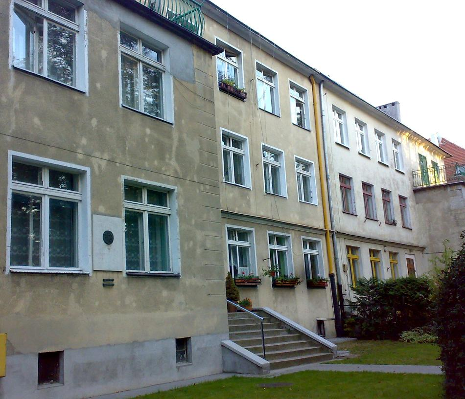 Cyryl Ratajski House in Poznan.